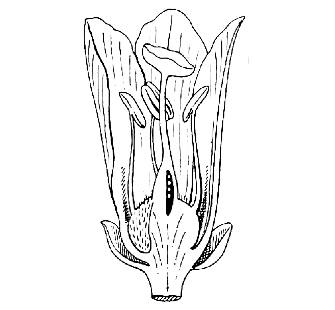 1907 illustration of a Toona febrifuga (=Toona sureni) flower